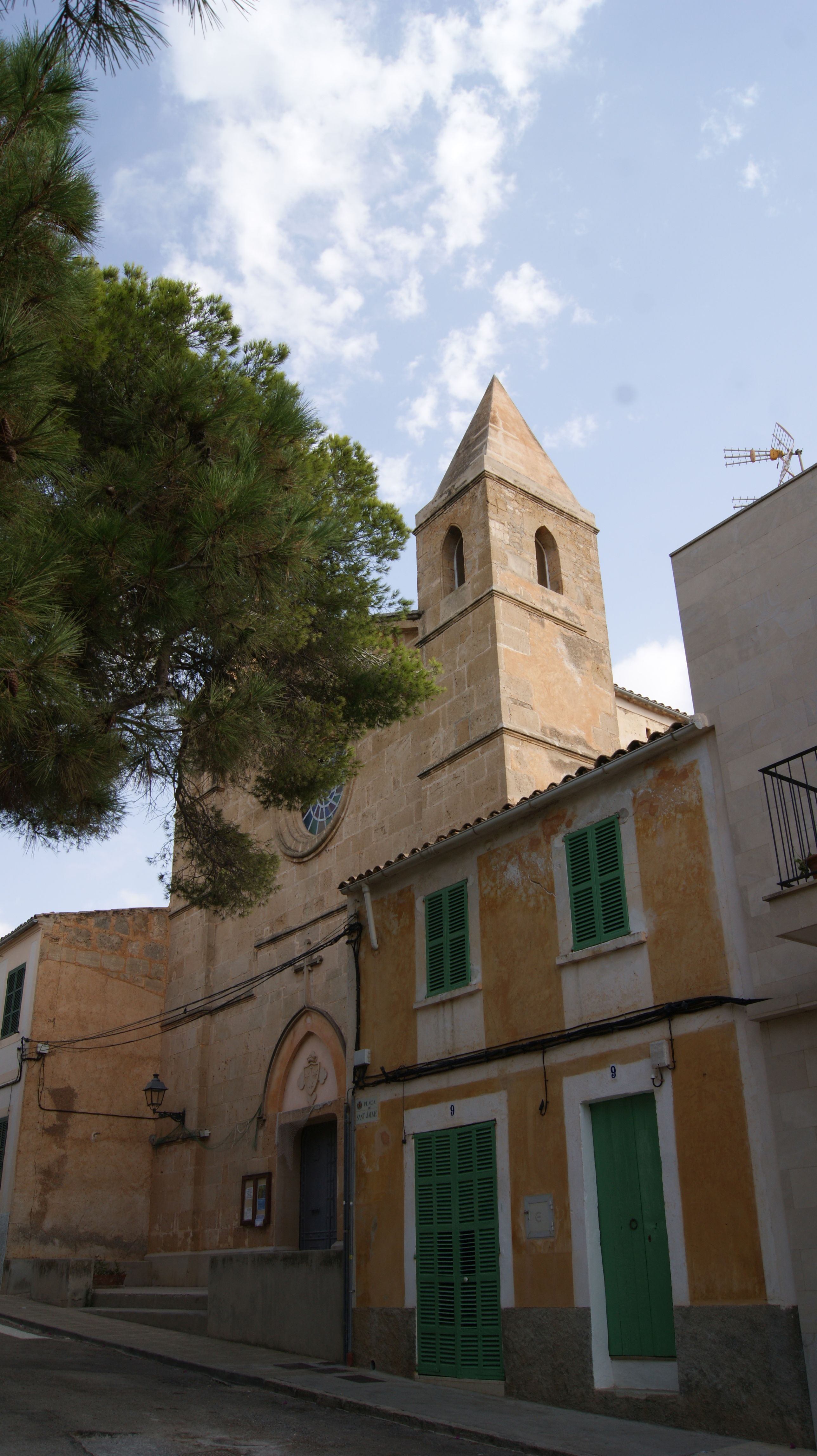 Church near the port of Portocolom in Mallorca.